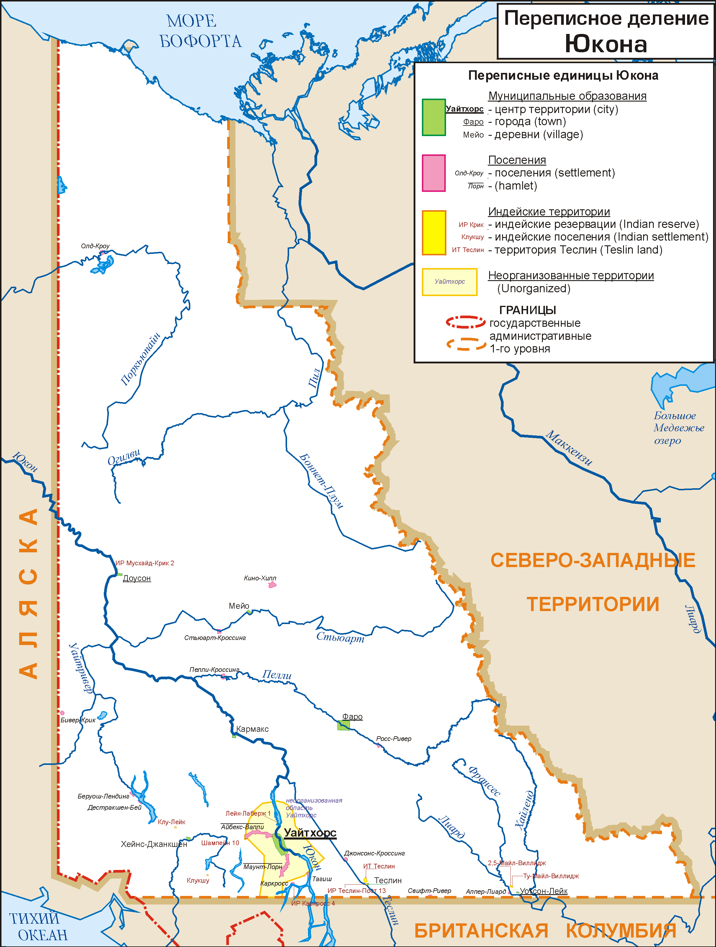 Census subdivisions of Yukon (Canada), in Russian. Based on map from Mercator projection